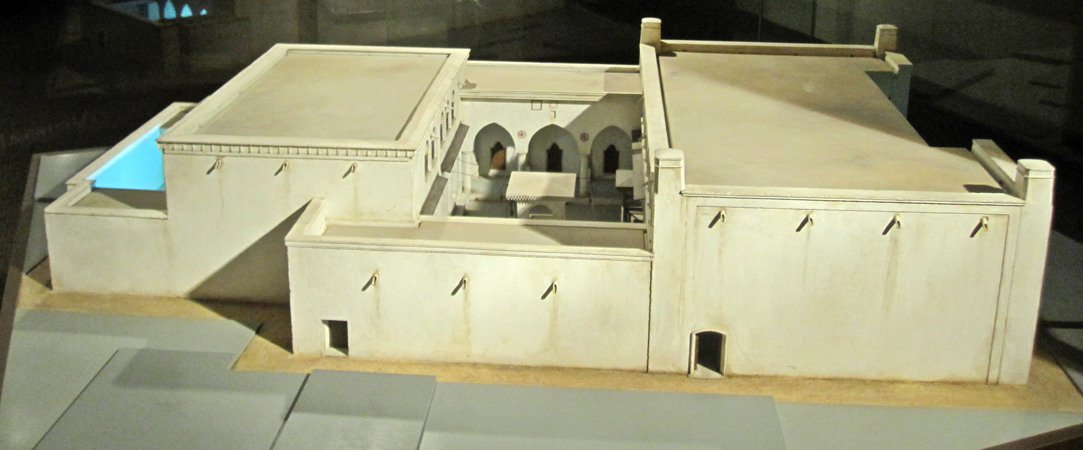 This is a photo of an exhibit at the Diaspora Museum, Tel Aviv - Beit Hatefutsot. Model of Central Synagogue of Aleppo